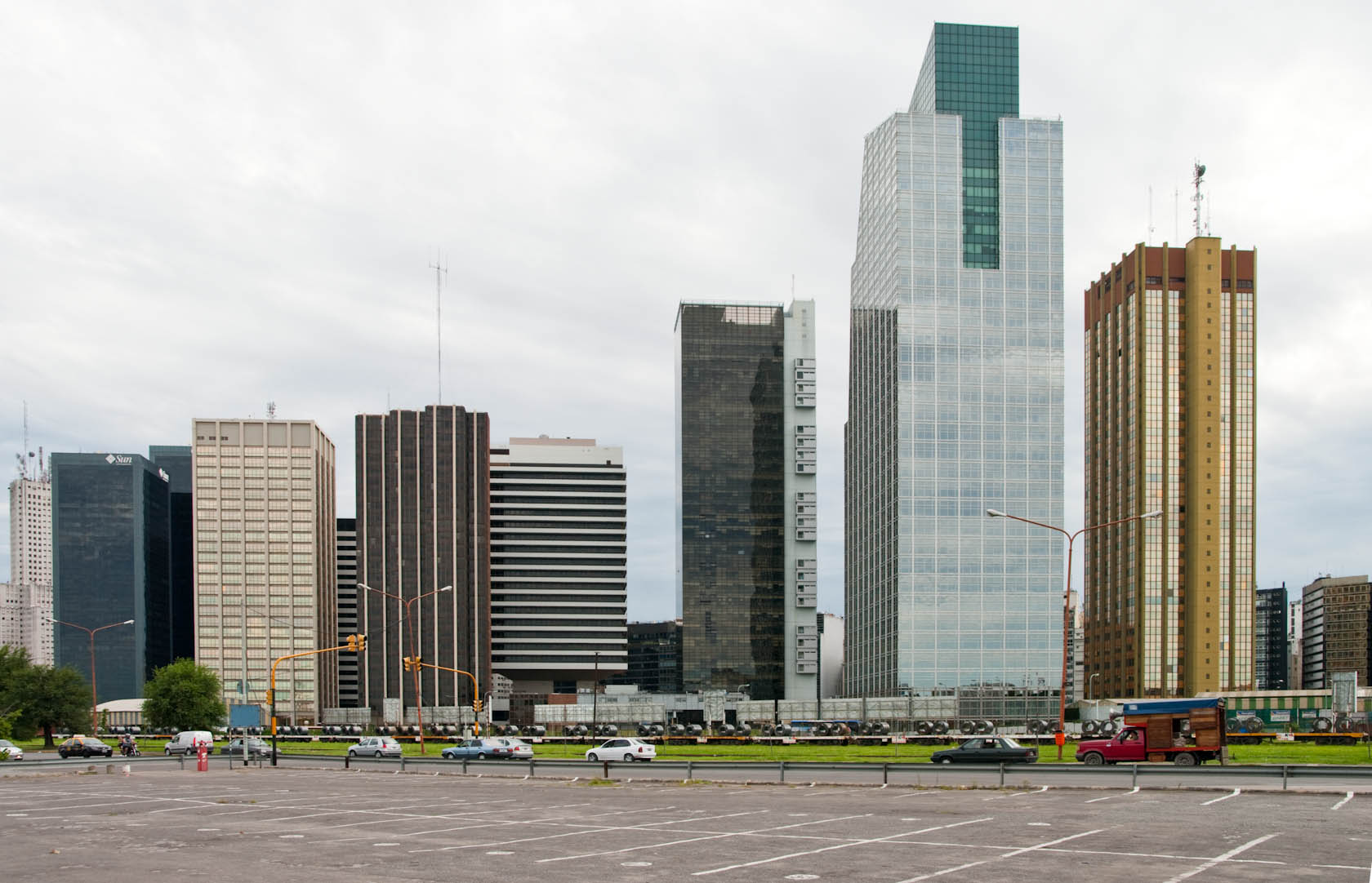 Catalinas Norte office park. Buenos Aires, Argentina.